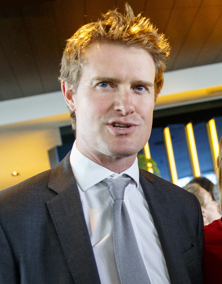 The Honourable Tristram Julian William Hunt, Fellow of the Royal Historical Society, Member of Parliament for Stoke-on-Trent Central